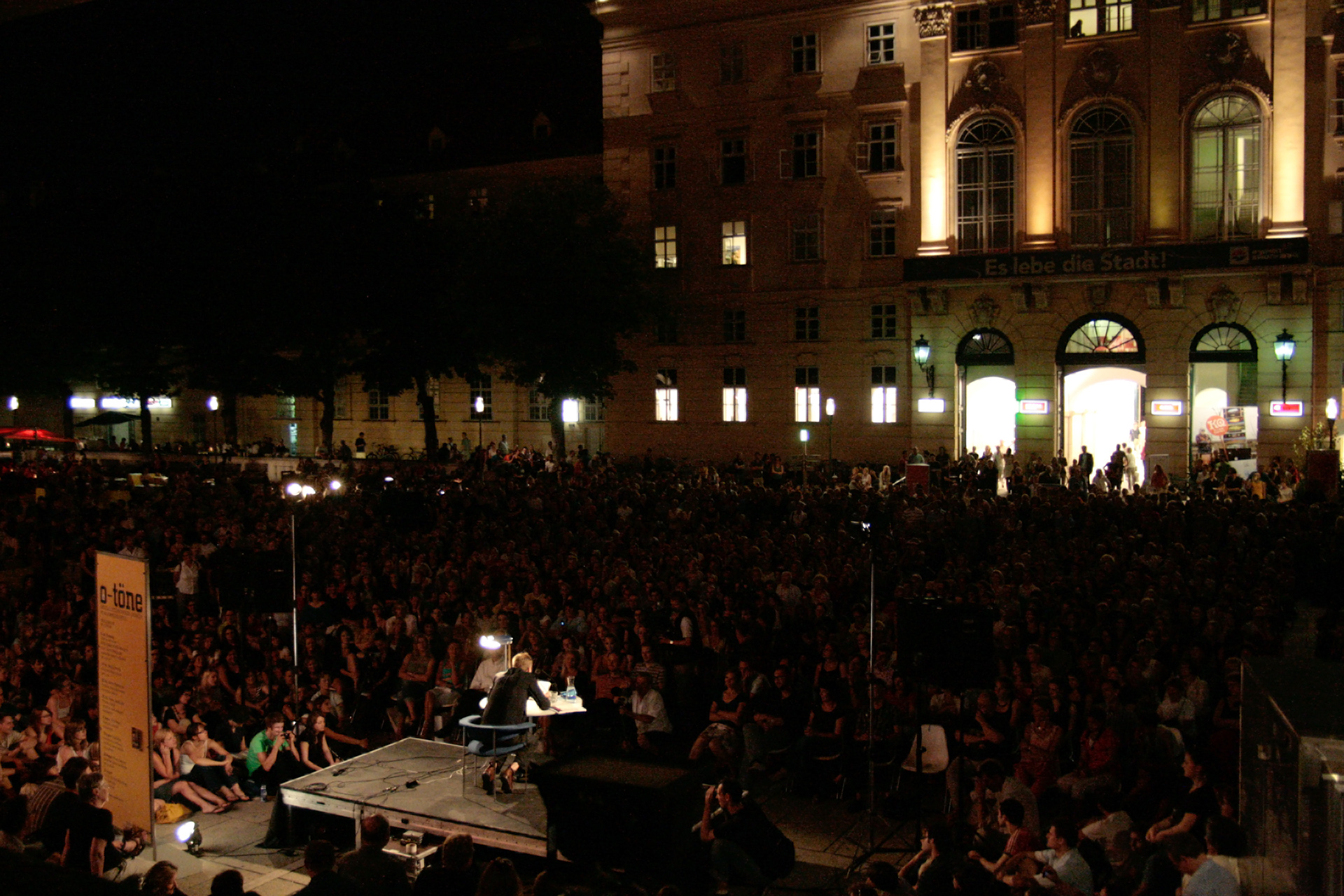 Austrian writer Wolf Haas reading at the literary festival o-töne (MuseumsQuartier, Vienna, Austria